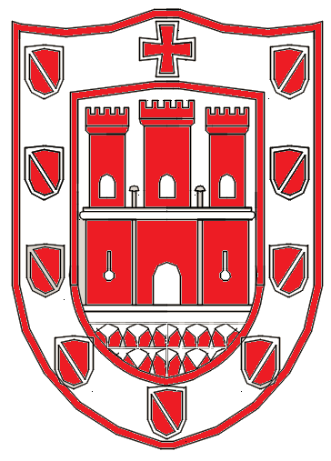 Vellosillo shield